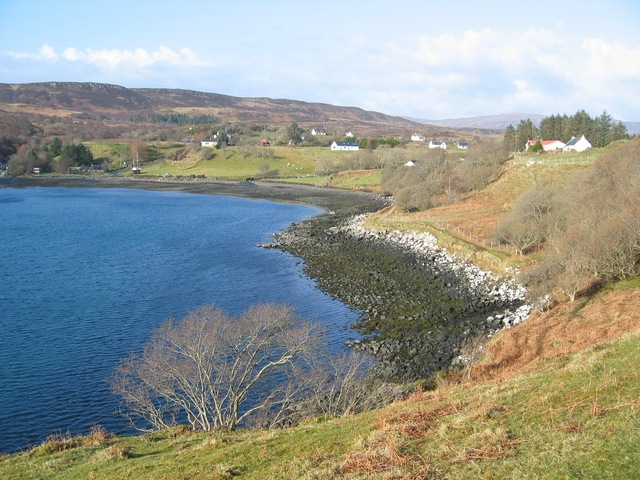 Looking back west along the shore to the crofting settlement of Camustianavaig, in Trotternish, Skye